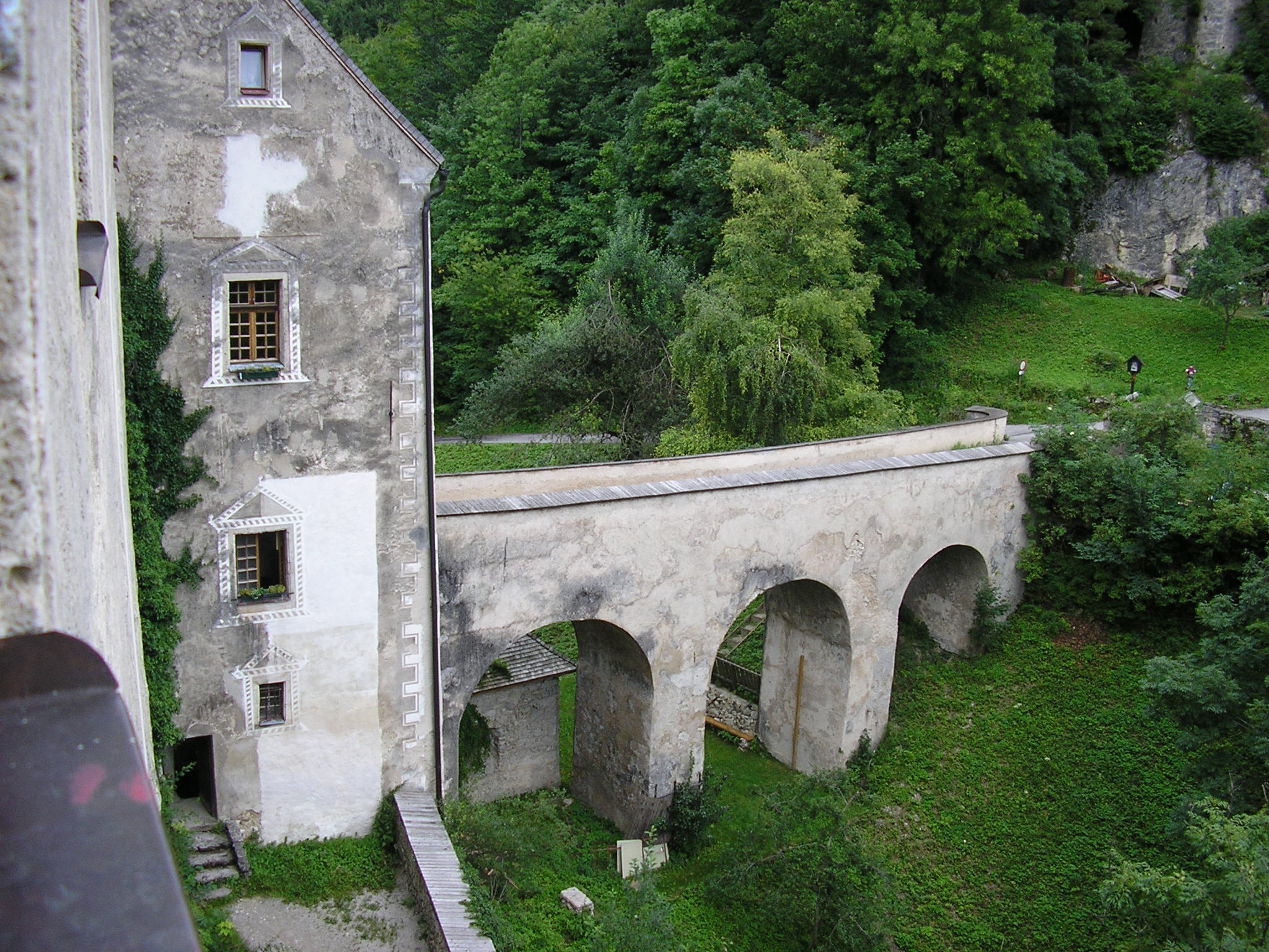 Castle Altperstein, bridge and moat